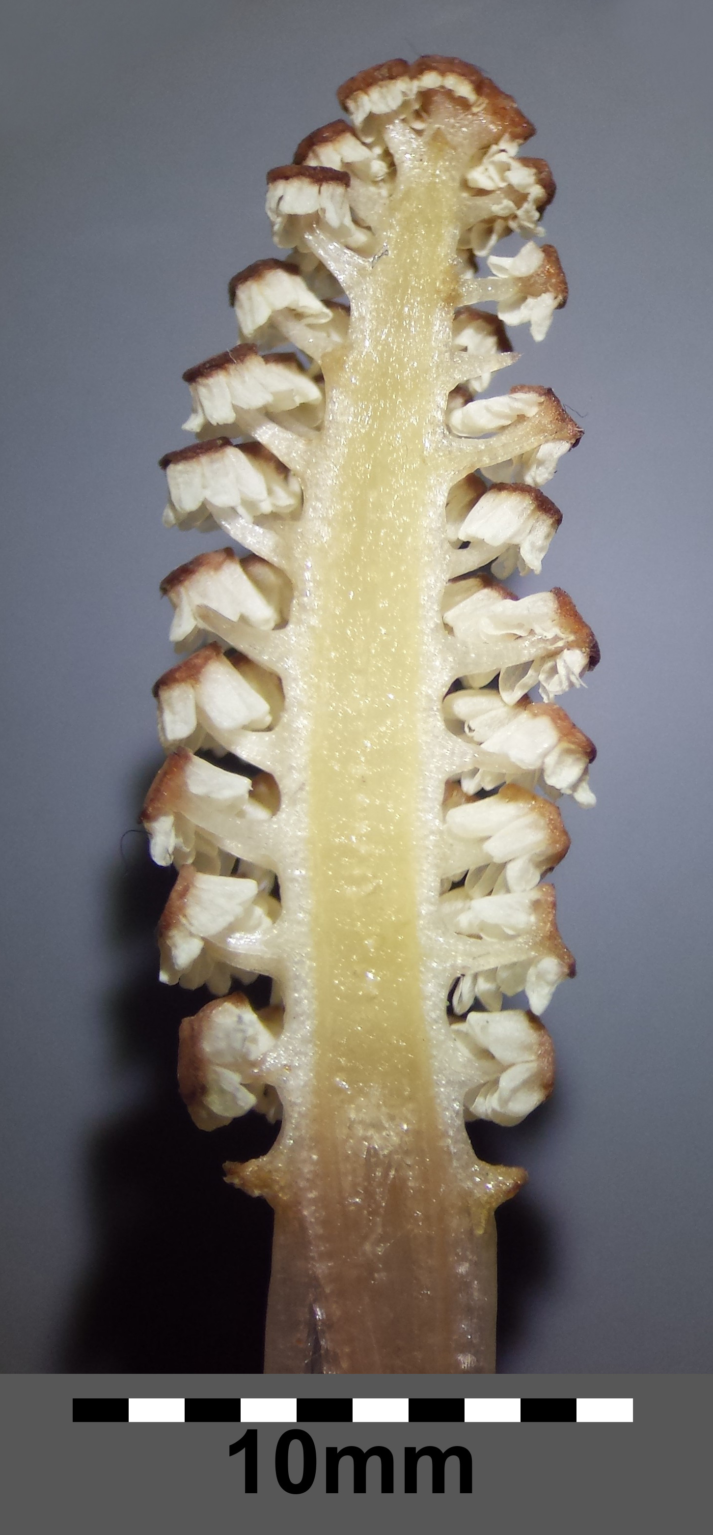 Cone, cut-through (fertile stem) Taxonym: Equisetum arvense subsp. arvense ss Fischer et al. EfÖLS 2008 ISBN 978-3-85474-187-9 Location: Jedlersdorf rail station, Vienna-Floridsdorf - ca. 160 m a.s.l. Habitat: ballast